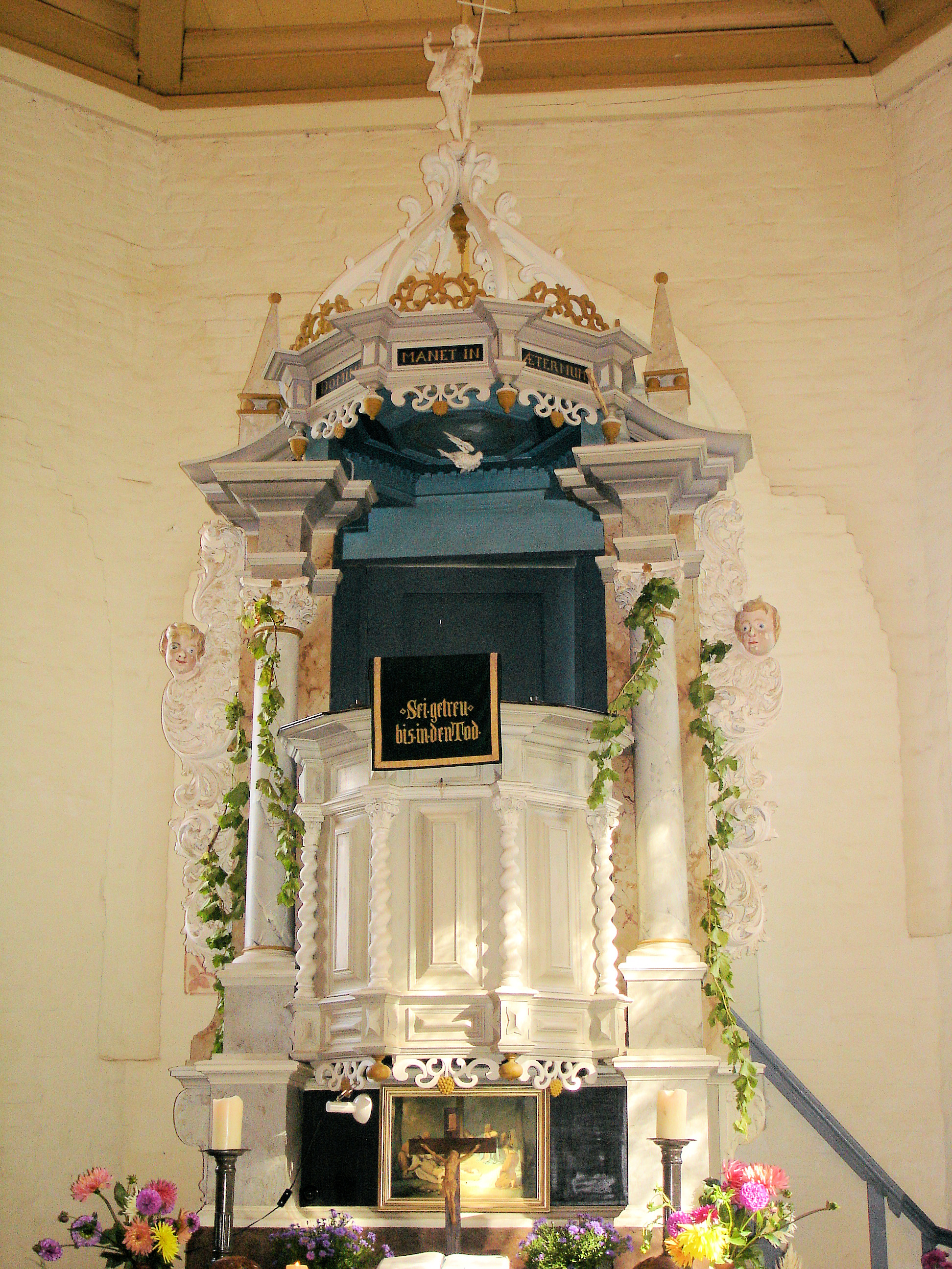 Church in Dambeck, Mecklenburg, Germany